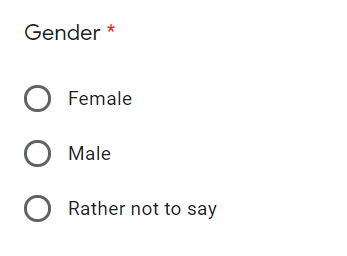 question in a survey asking for the gender of the respondent, and offering choices "female", "male", and "rather not to say"